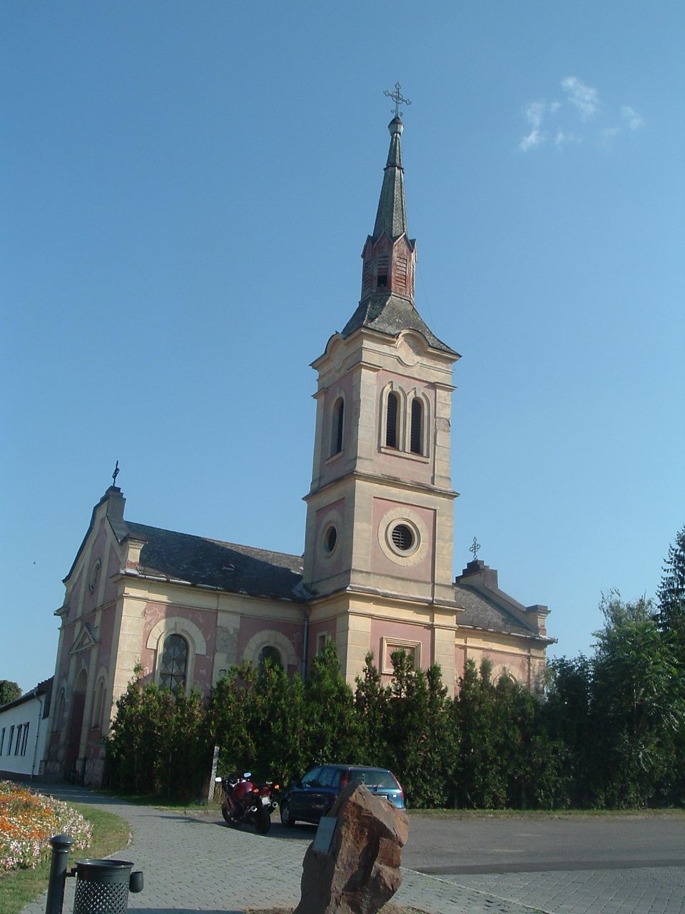 Szécsény, Lutheran Church